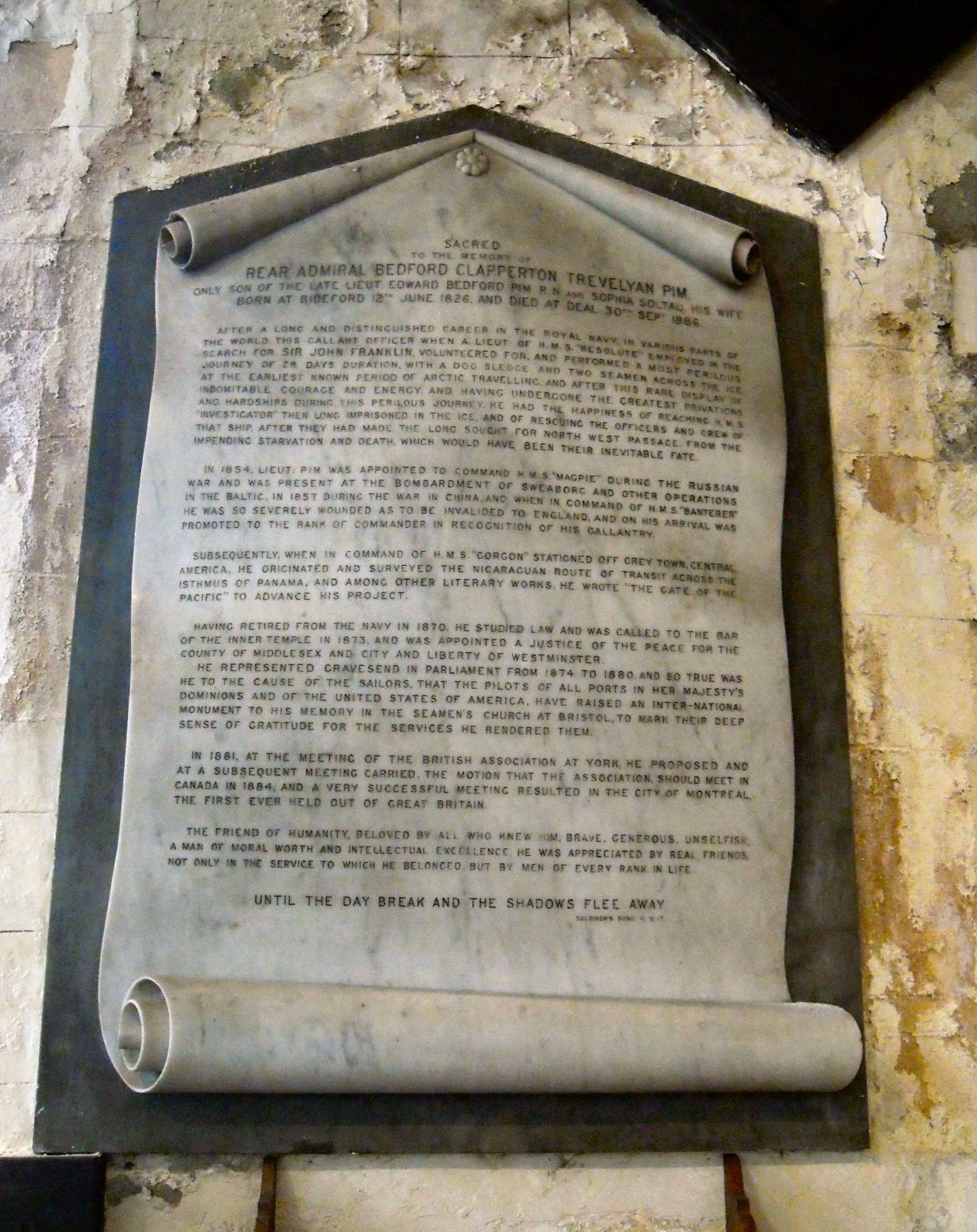 Wall memorial to the Arctic explorer and author Admiral Bedford Pim in St Mary's church in Bideford in Devon